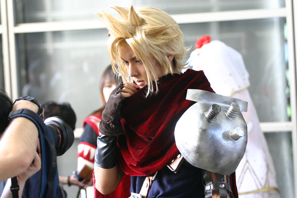 This photo was taken on September 22, 2006 using a Canon EOS Digital Rebel.